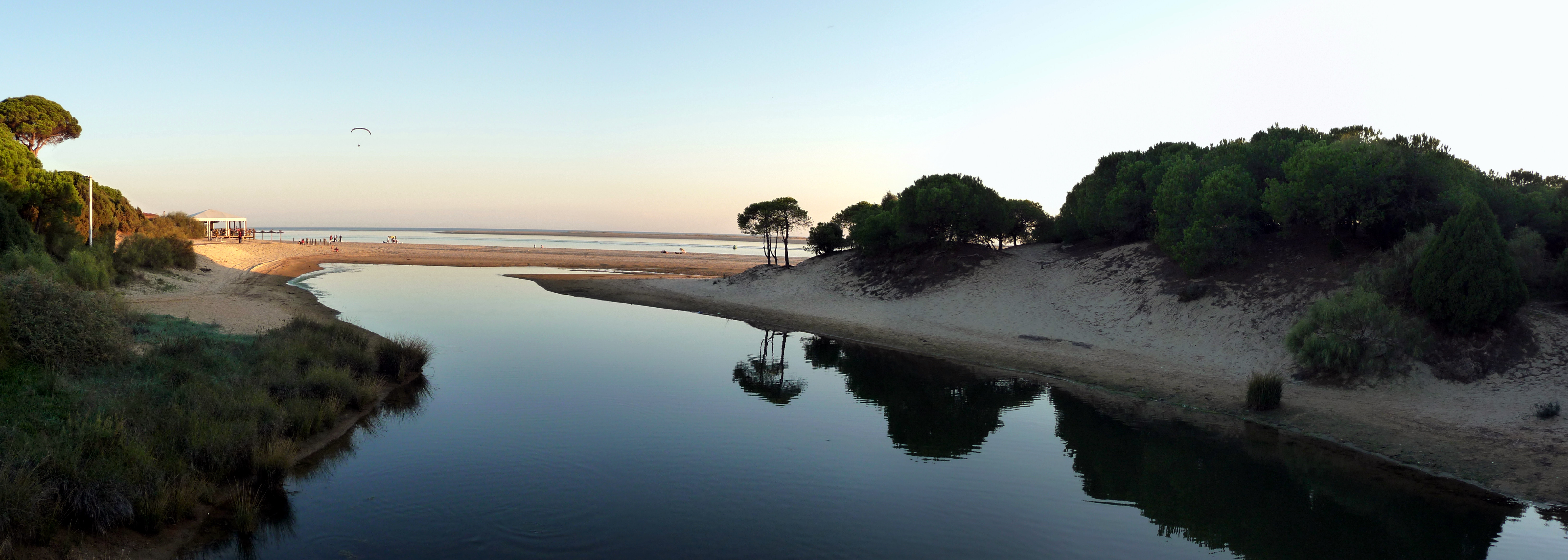 El Portil beach. Cartaya, province of Huelva (Spain)